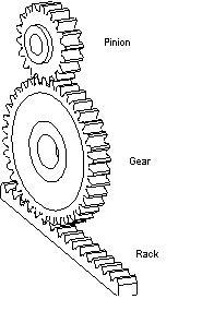 Diagram of a spur gear